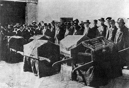 Sefer Torah's funeral after Kishinyov pogrom